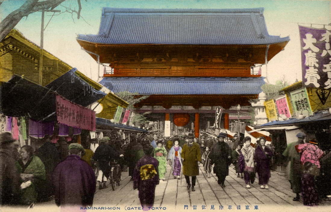 View of the Kaminarimon (Gate) and Nakamise Shops in Asakusa, Tokyo